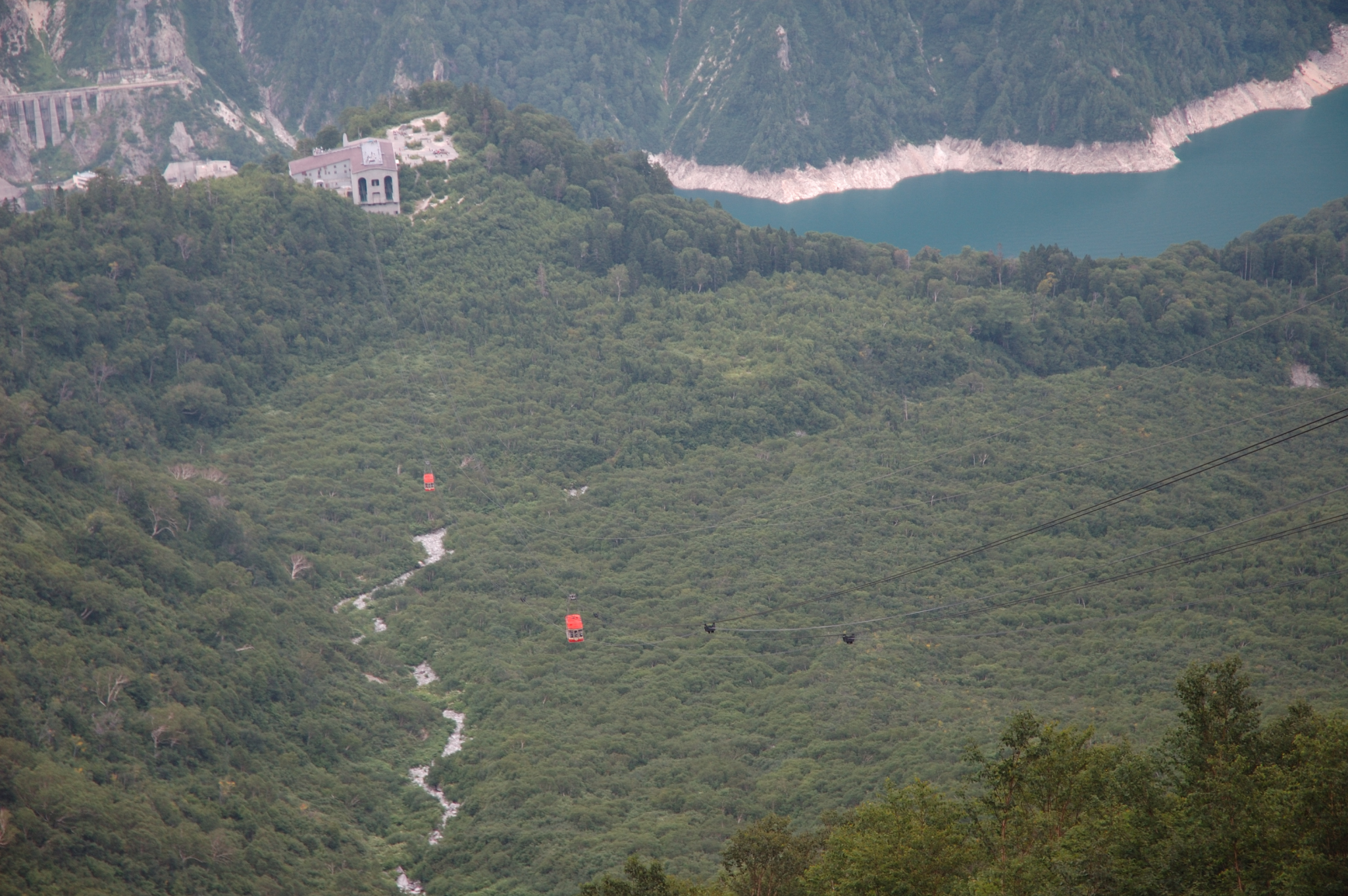 Tateyama ropeway and Kurobedaira station